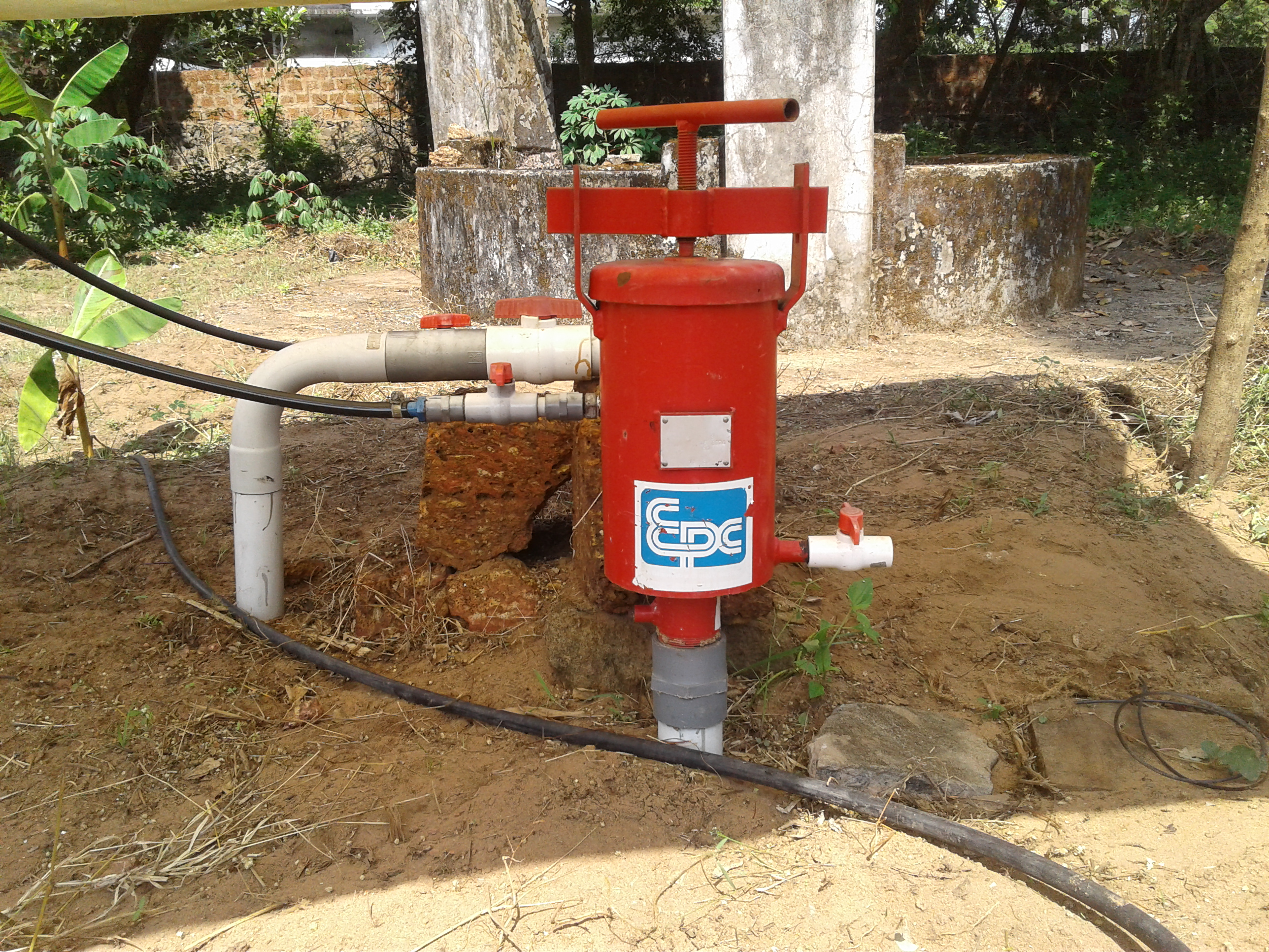 fertigation tank